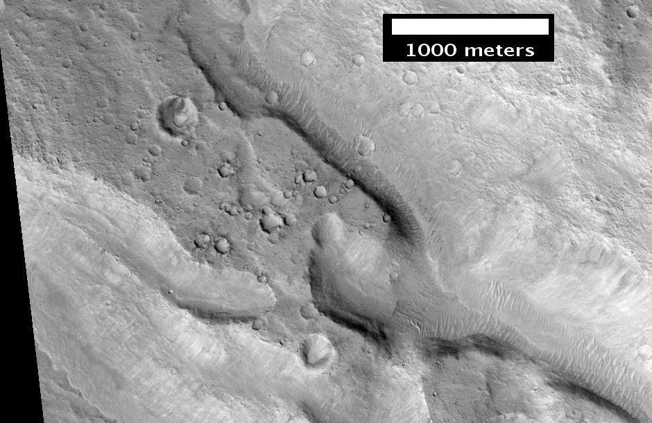 Ares Valles, as seen by hirise. Location is 10.6 N and 334.3 E.